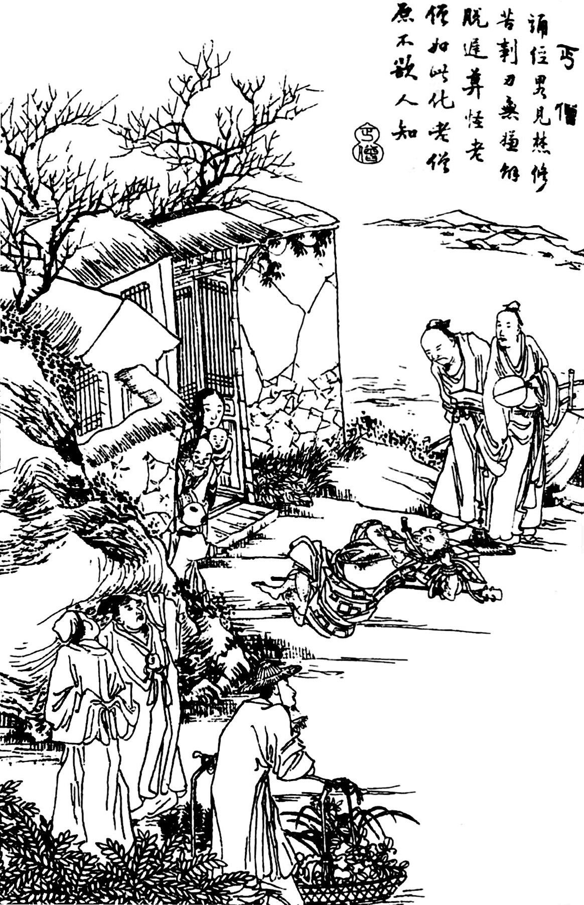 Illustration of a scene in "This Transformation" in which the begging monk slits open his stomach.